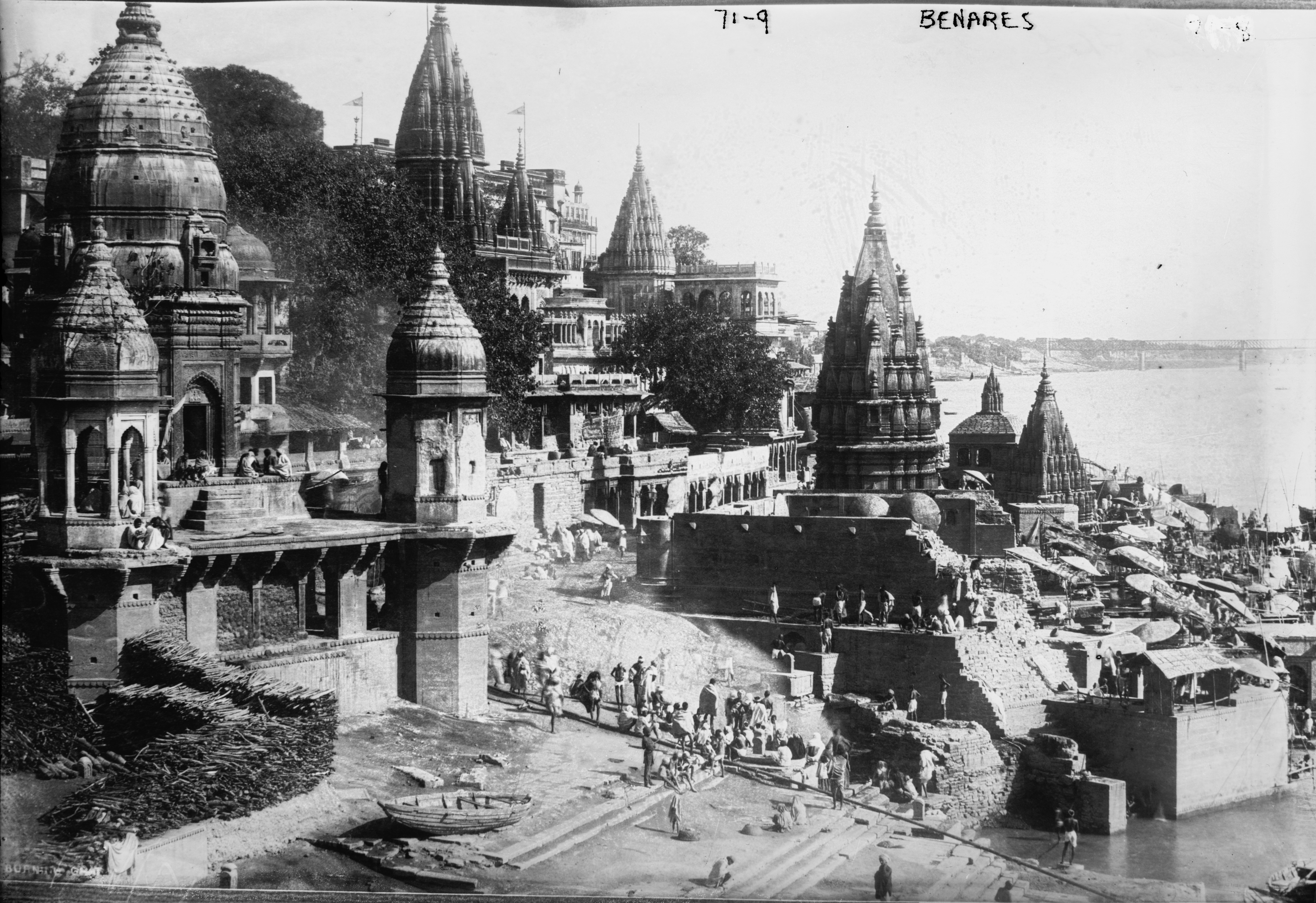 Benares (Varanasi, India). Photograph taken in 1922. This image is cropped from the Library of Congress online catalog image; see catalog information below. There are no known restrictions on the use of this image, as per the LOC catalog entry. TITLE: City View, Benares, India CALL NUMBER: LC-B2- 71-9[P&P] REPRODUCTION NUMBER: LC-DIG-ggbain-00371 (digital file from original neg.) No known restrictions on publication. MEDIUM: 1 negative : glass ; 5 x 7 in. or smaller. CREATED/PUBLISHED: 1922. NOTES: Forms part of: George Grantham Bain Collection (Library of Congress). Title from unverified data on caption card or negative sleeve. TOPICS: Benares, India FORMAT: Glass negatives. REPOSITORY: Library of Congress Prints and Photographs Division Washington, D.C. 20540 USA DIGITAL ID: (digital file from original neg.) ggbain 00371 CARD #: ggb2004000371